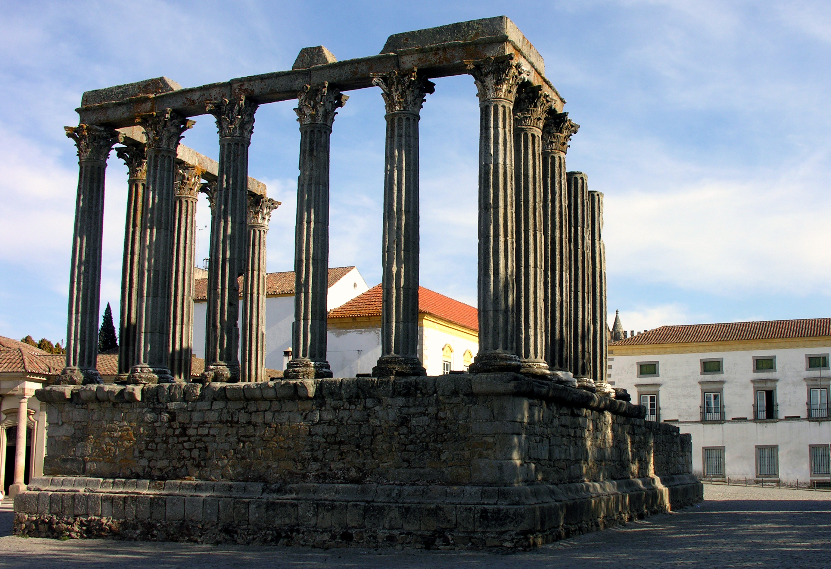 Roman Temple, known as Diana's Temple, in (Évora, Portugal)